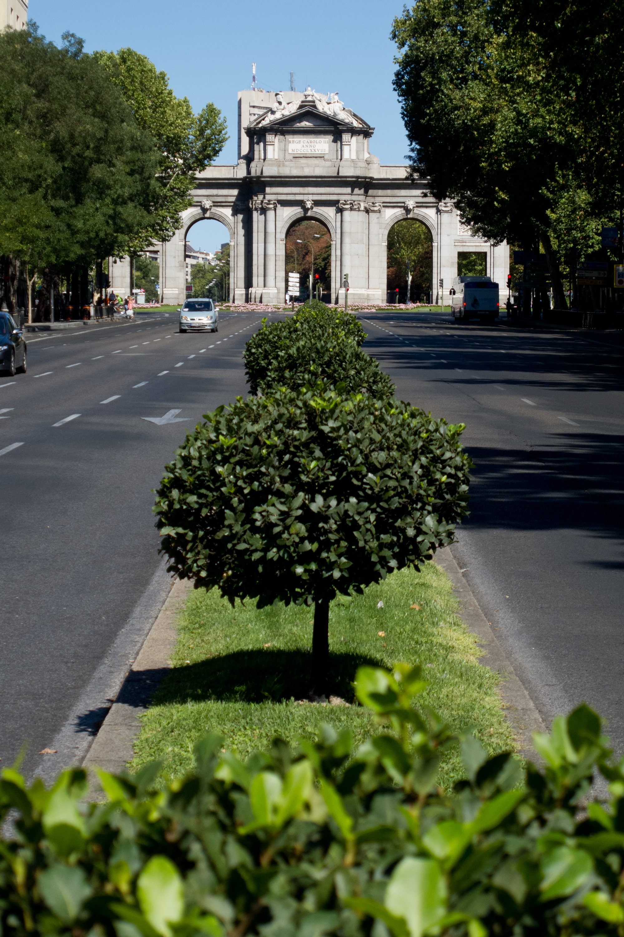 Alcalá Gate, Madrid, Spain.